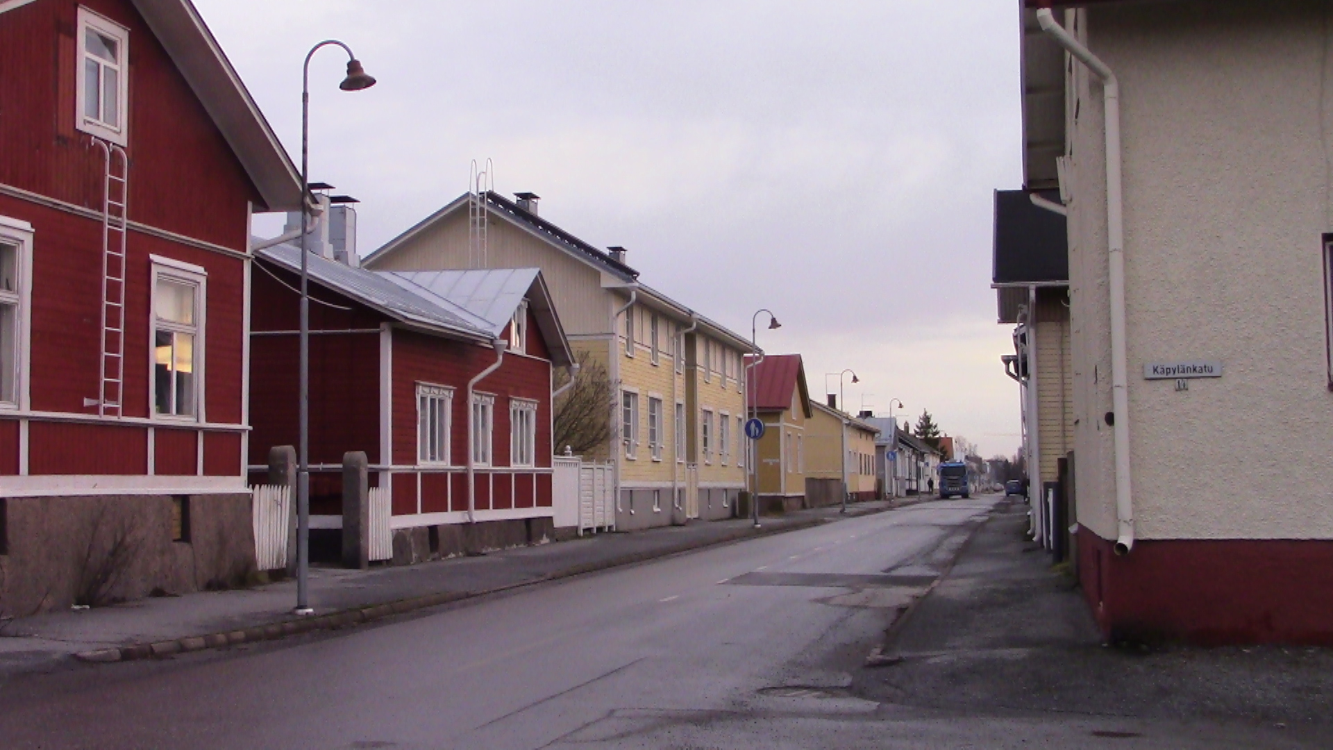 Esivallankatu street as seen from the crossing of Käpylänkatu street at Päärnäinen suburb in Pori, Finland.